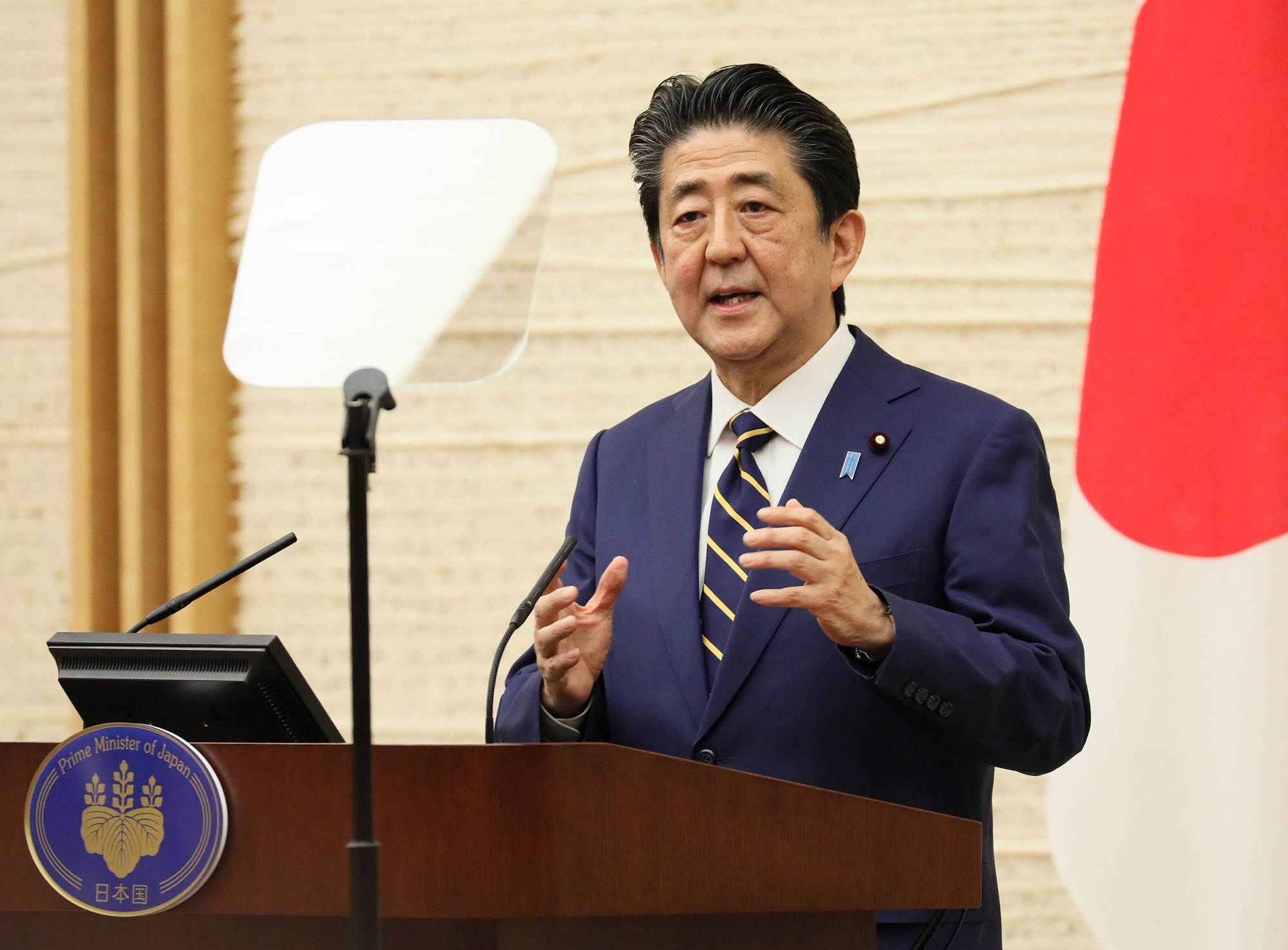 Shinzō Abe, Prime Minister, attended a press conference at the Prime Minister's Official Residence in Chiyoda Ward, Tōkyō Metropolis on April 7, 2020.